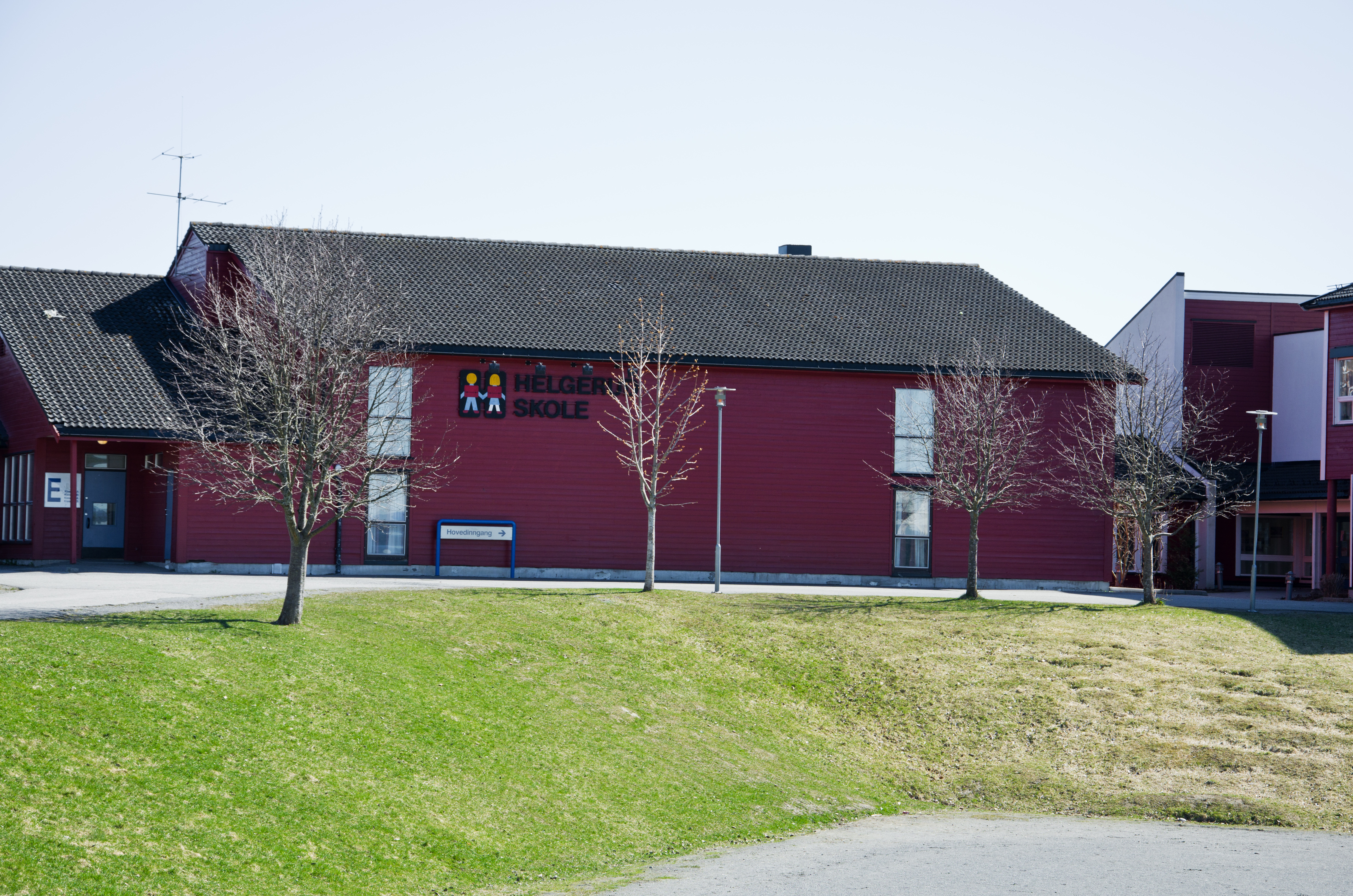 Helgerud primary school, Ringerike, Buskerud, Norway